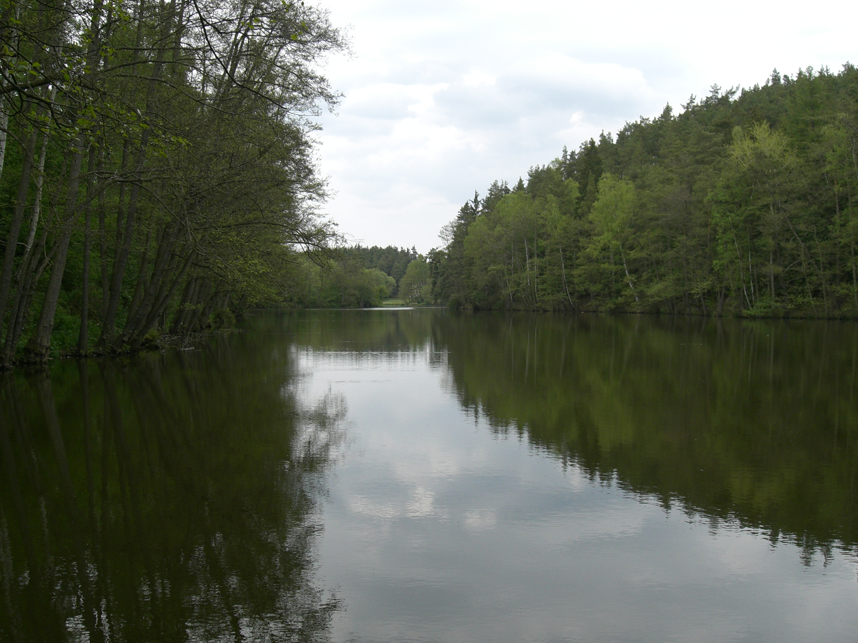 Odlezly Lake, Czech Republic.